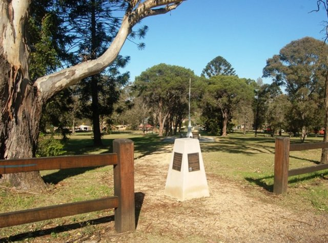 Wilberforce Park from Macquarie Road with 2008 Obelisk in the foreground at the beginning of the path leading to the War Memorial and Memorial Gates